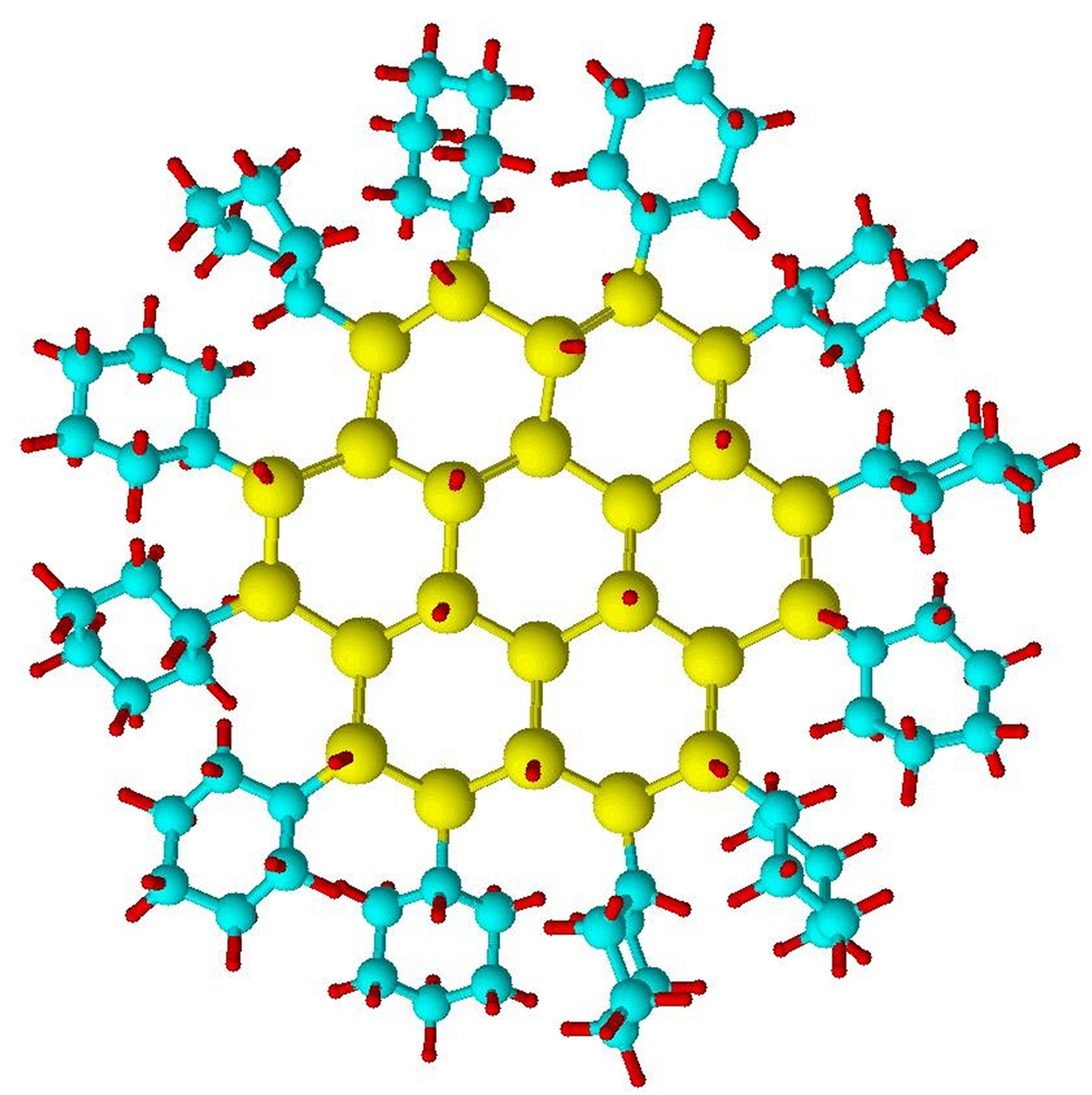 A structural model of a typical silicon nanocrystal (yellow) stabilized within an organic shell of cyclohexane (blue). Credit: NIST Disclaimer: Any mention of commercial products within NIST web pages is for information only; it does not imply recommendation or endorsement by NIST. Use of NIST Information: These World Wide Web pages are provided as a public service by the National Institute of Standards and Technology (NIST). With the exception of material marked as copyrighted, information presented on these pages is considered public information and may be distributed or copied. Use of appropriate byline/photo/image credits is requested.